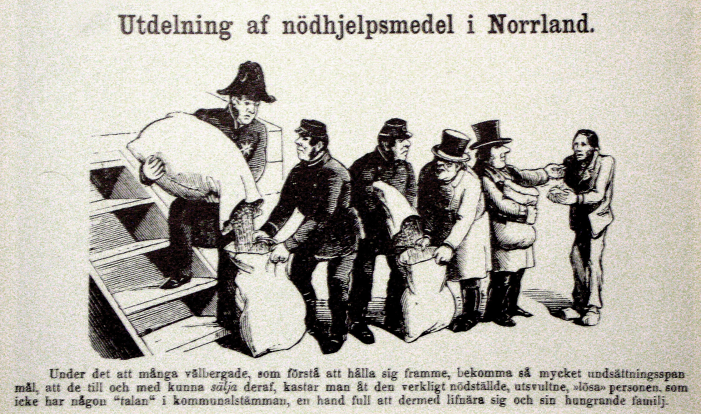 Illustration of the inefficiency of emergency food aid during the famine in northern Sweden 1867. From left can be seen the county governor, the police and tax authorities and rich farmers - all of them helping each other to lots of the grain intended for starving people. The poor man to the right, who really needs help, gets a mere handful of grain.